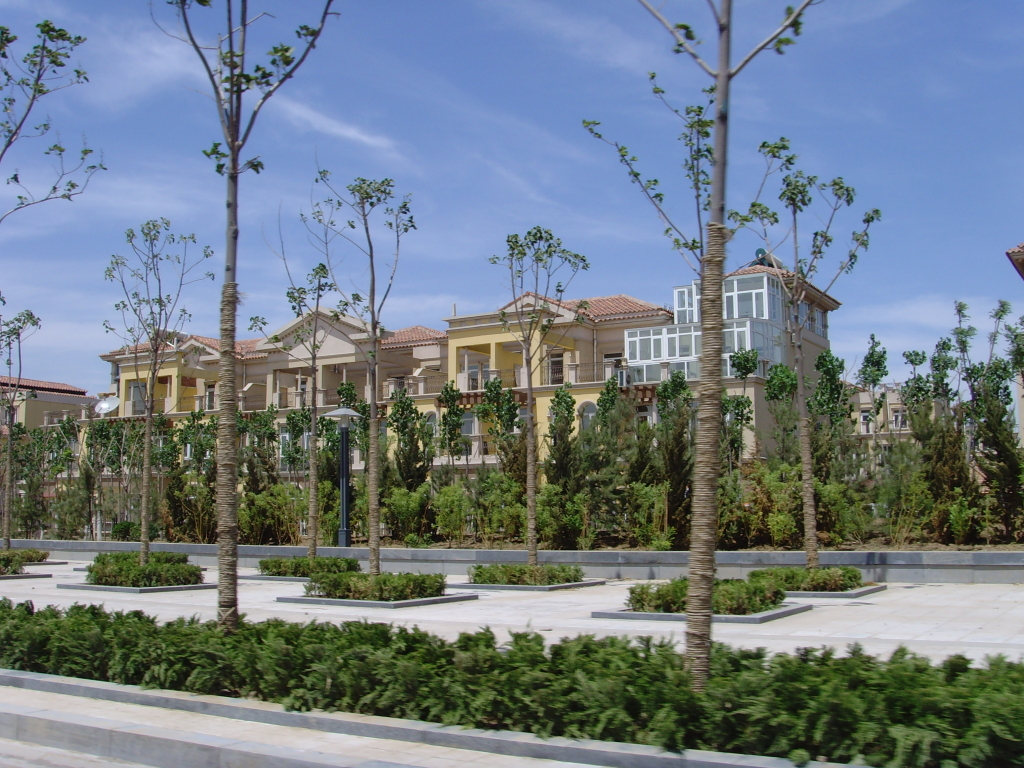 Tianjin Dongli